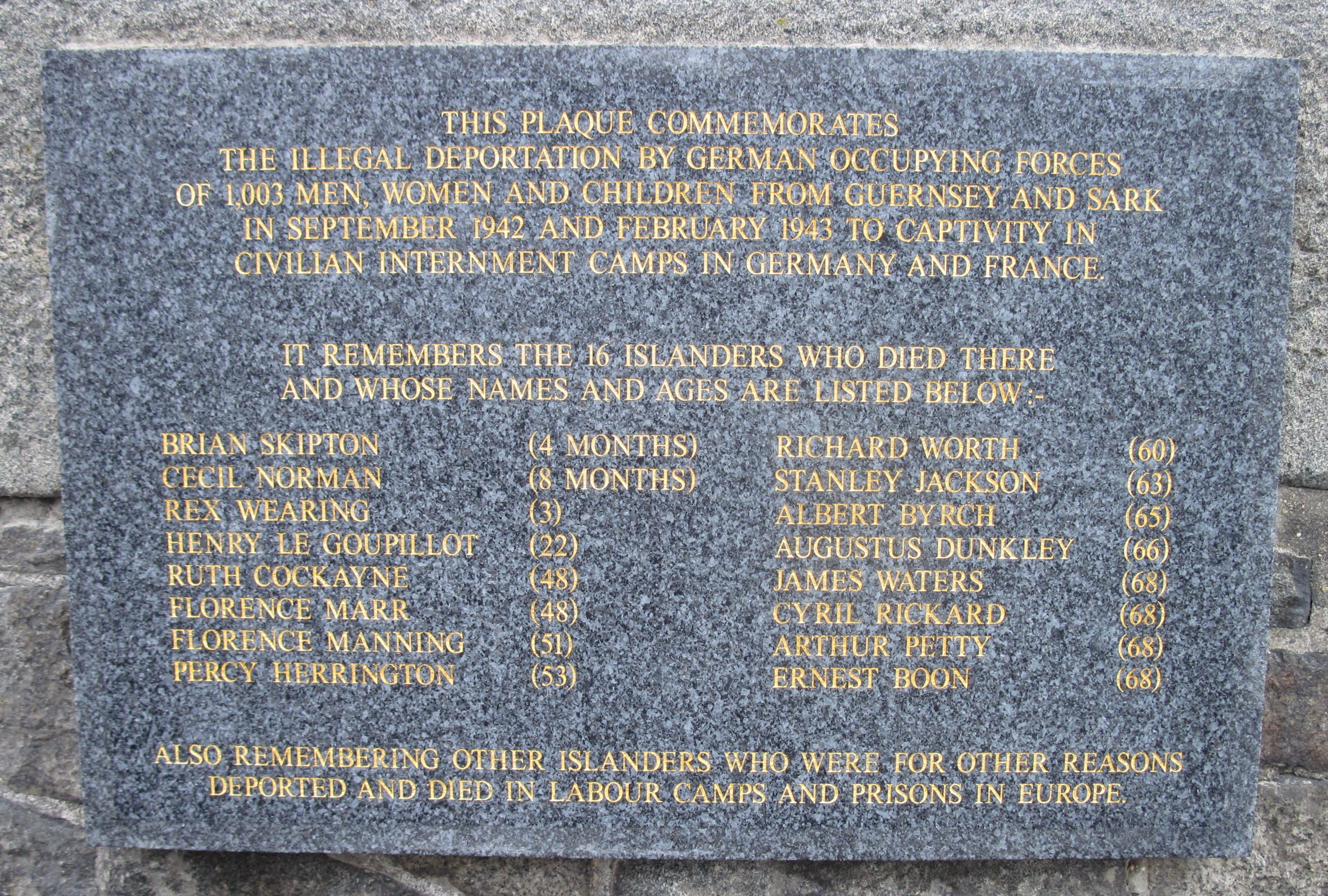 Guernsey, 2 July 2010: plaque